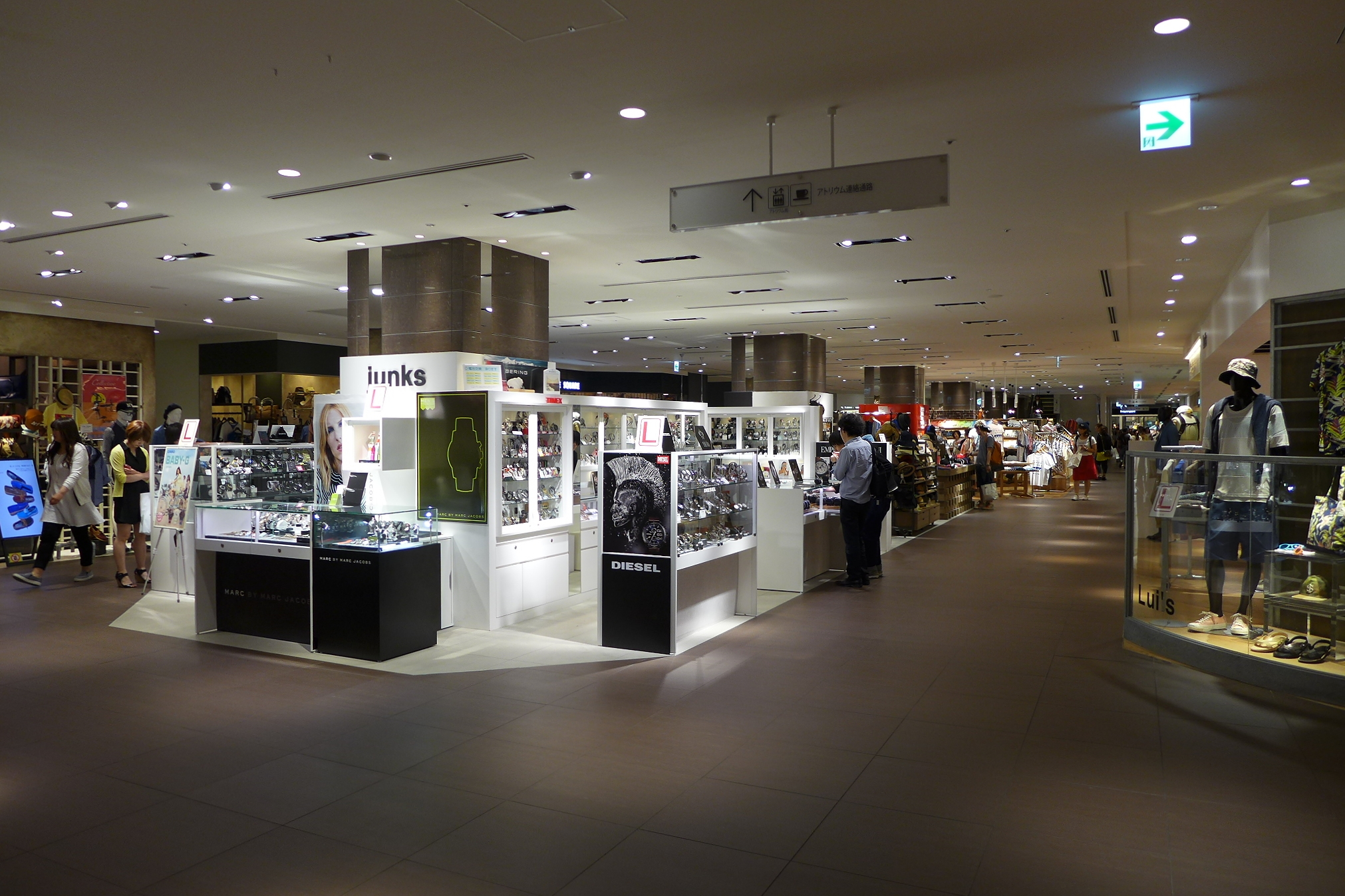 Osaka Station City Lucua Level 7